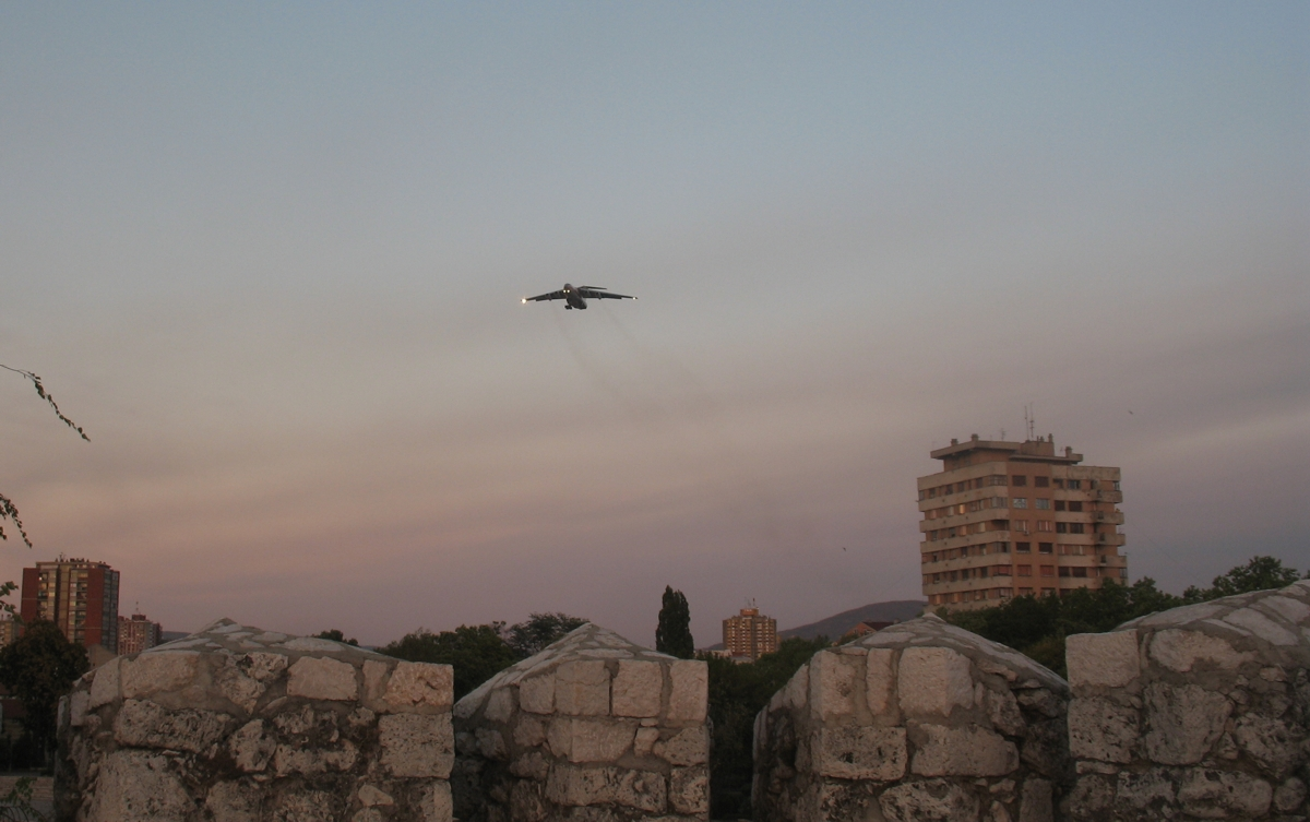 Ilyushin Il-76 waterbomber over Niš, Serbia.